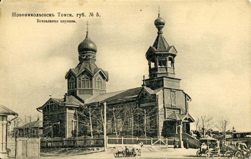 Prophet Daniel church in Novosibirsk, demolished in 1925.